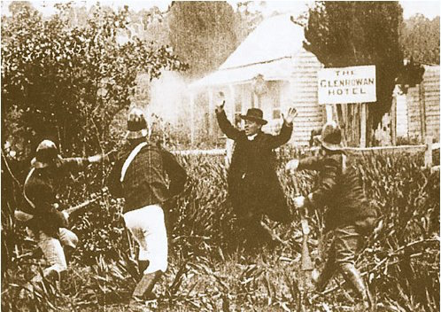 Image of the 1906 film, The Story of the Kelly Gang the first full length feature film about the Australian bush ranger, Ned Kelly.